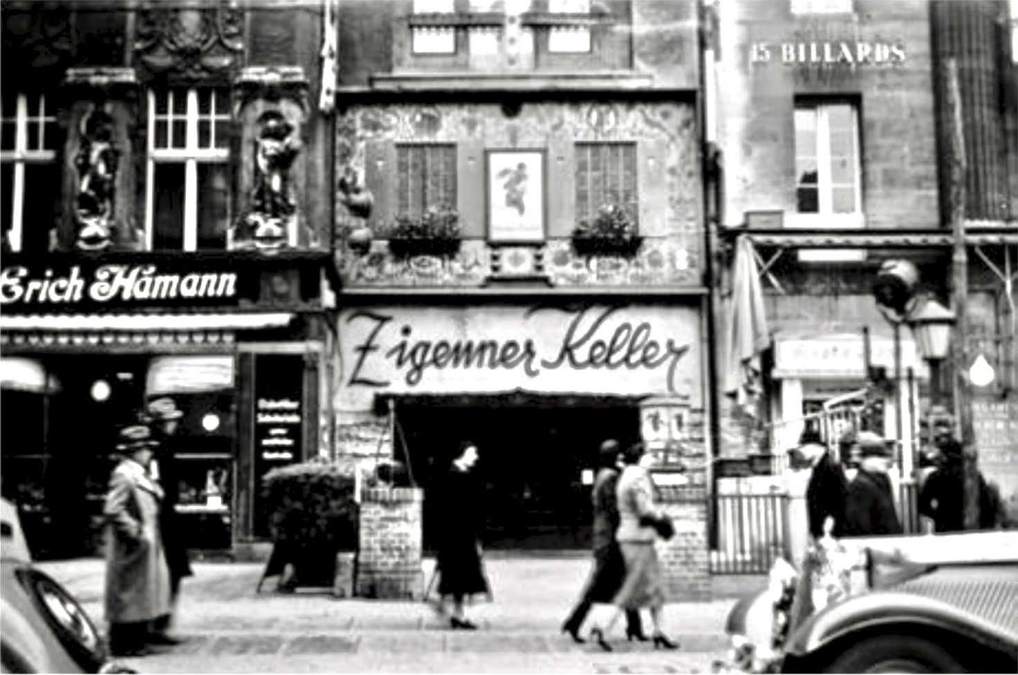 The Hungarian restaurant Zigeuner Keller at Kurfurstendamm in Berlin Charlottenburg in the 1930s. The restaurant of the entrepreneur Karl Kutschera (1876–1950) was considered a sensation as it opened in 1930 since it was the largest in a basement below the street.